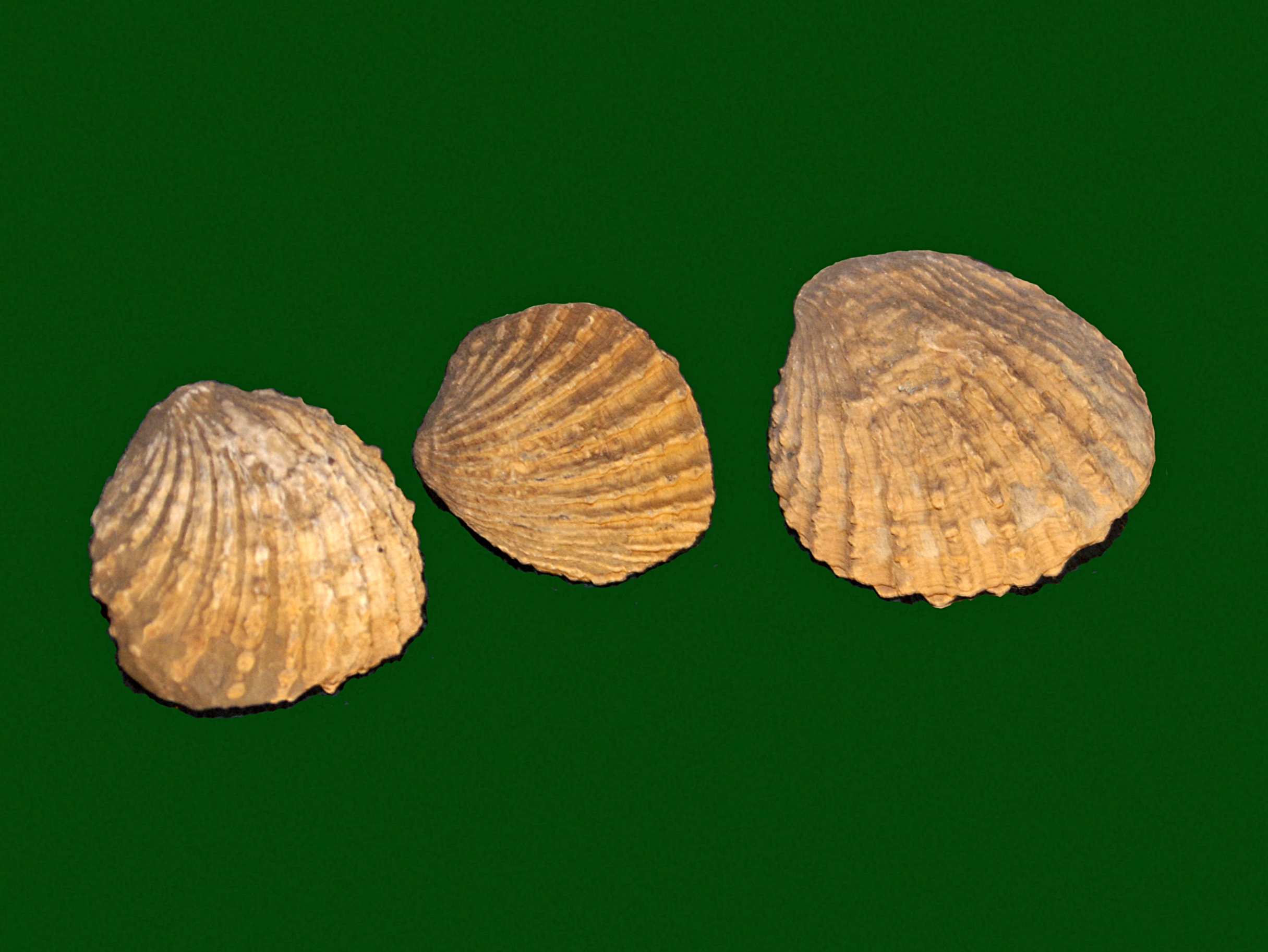 Fossil Venericardia (Baluchicardia) ameliae (Peron) from Maastrichtian age of Algeria at Gallery of Paleontology and Comparative Anatomy, Paris.